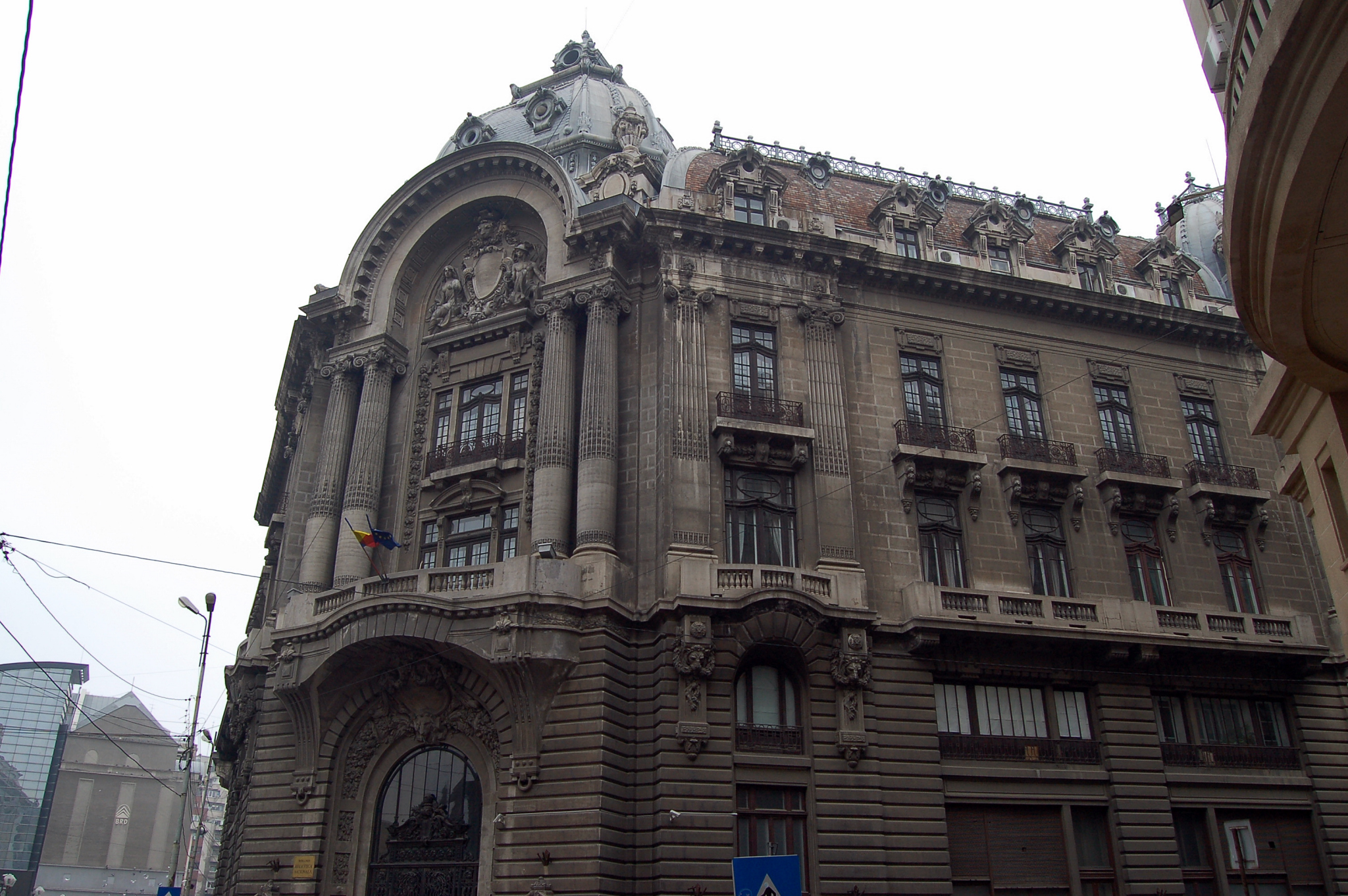 National Library of Romania